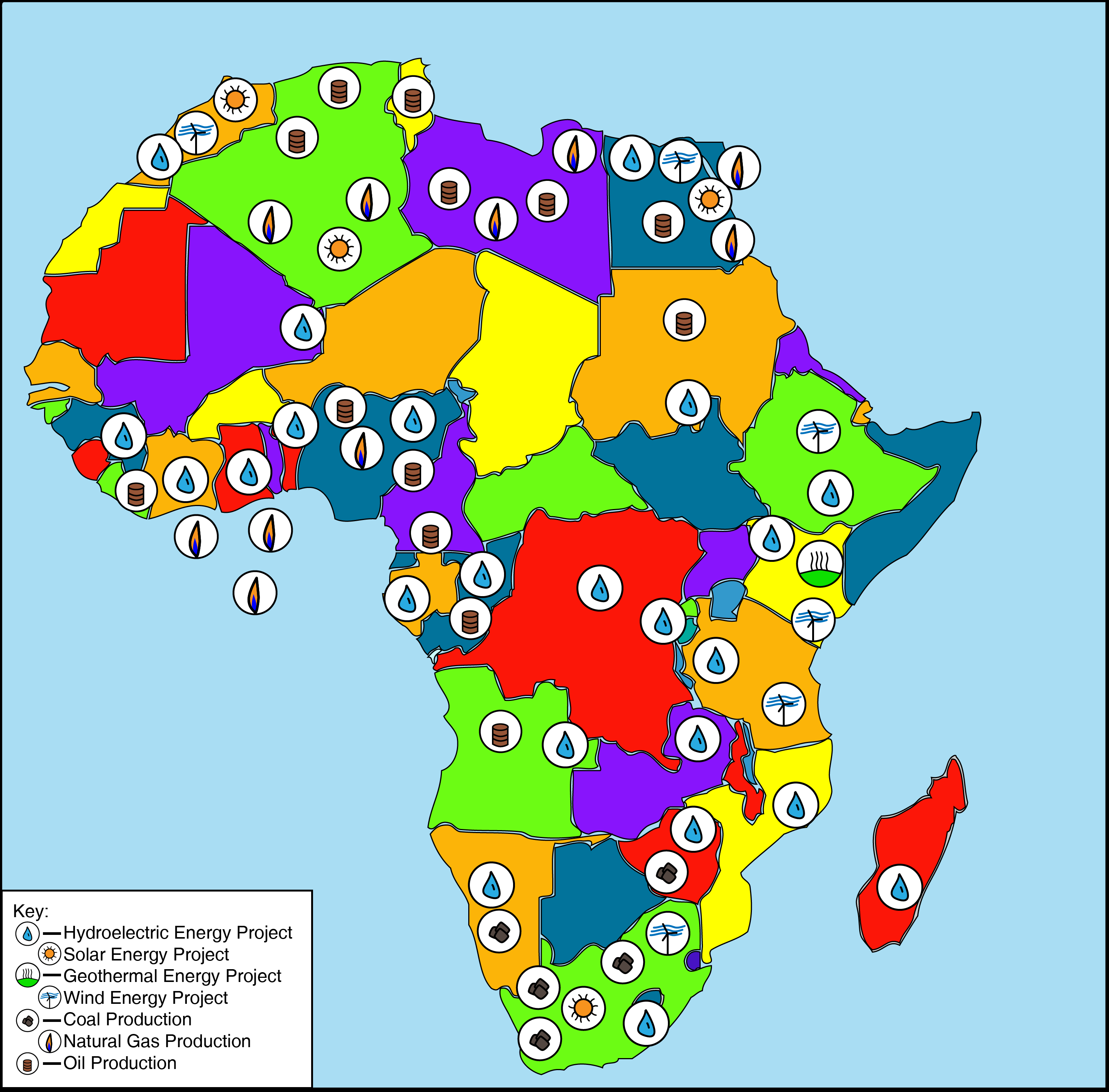 This file contains a rendered image of a map of Africa, with small graphical overlays outlining potential resources available across the continent. It has been created as a splash graphic for Energy in Africa.